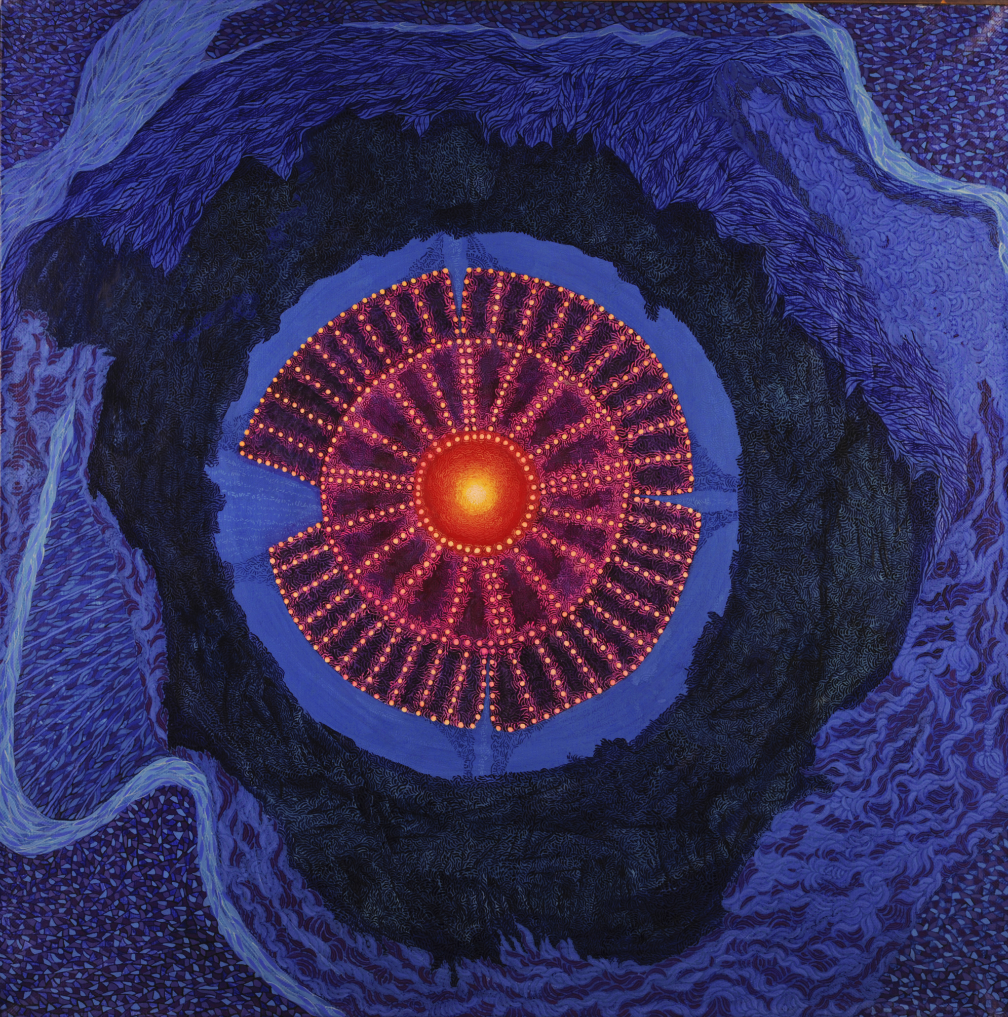 Painting by Lola Lonli. "Arkaim Shining". 2001. Egg tempera on canvas. 80x80 cm